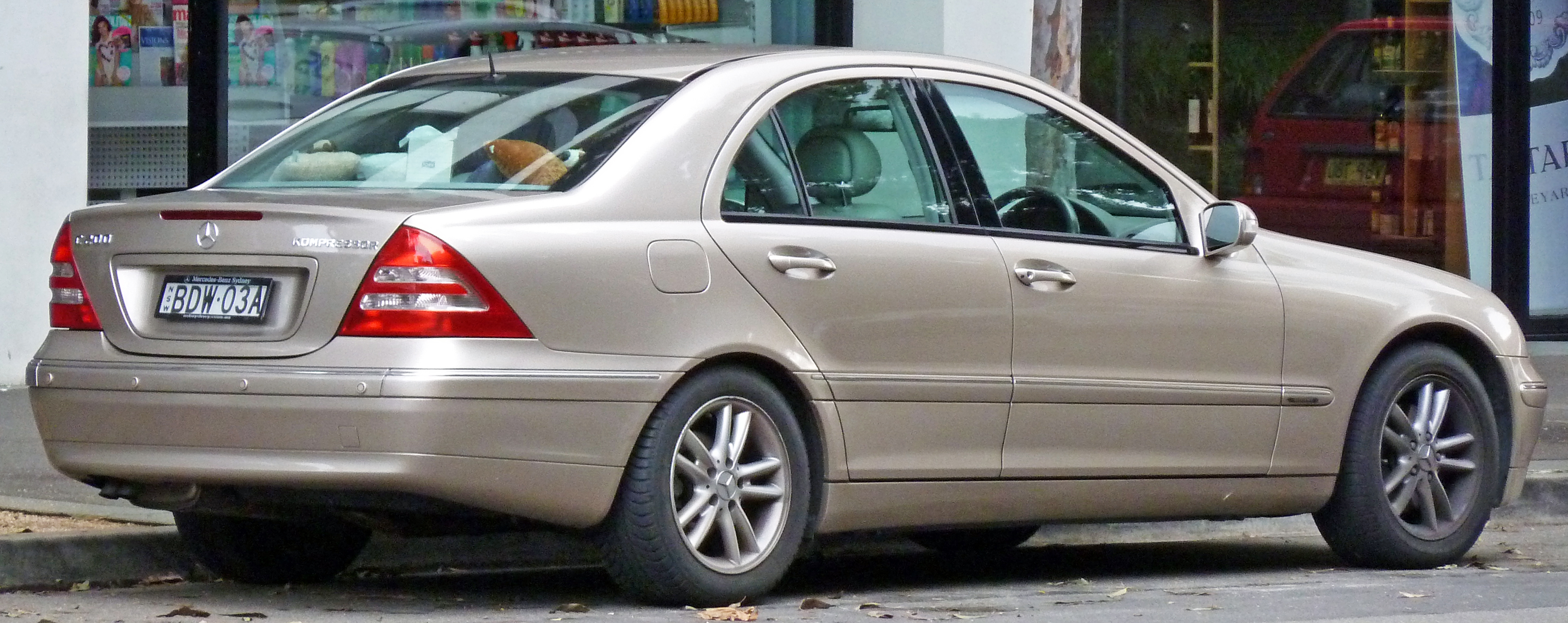 2002 Mercedes-Benz C 200 Kompressor (W 203) Elegance sedan. PhotographedPhotographed in Zetland, New South Wales, Australia.